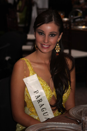 Miss Paraguay 2008 Gabriela Rejala during Miss World 08